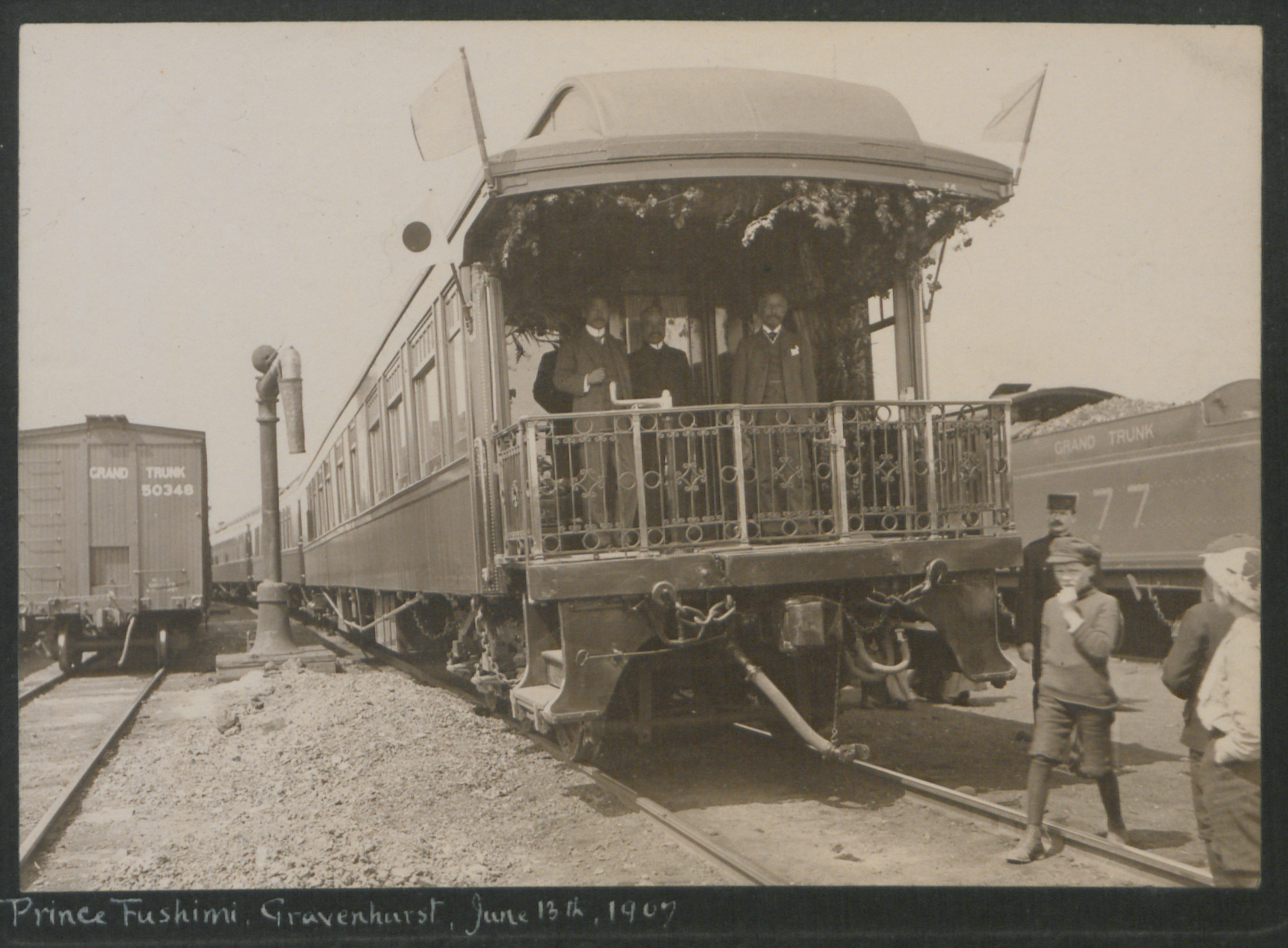 Prince Fushimi, Gravenhurst, June 13, 1907.